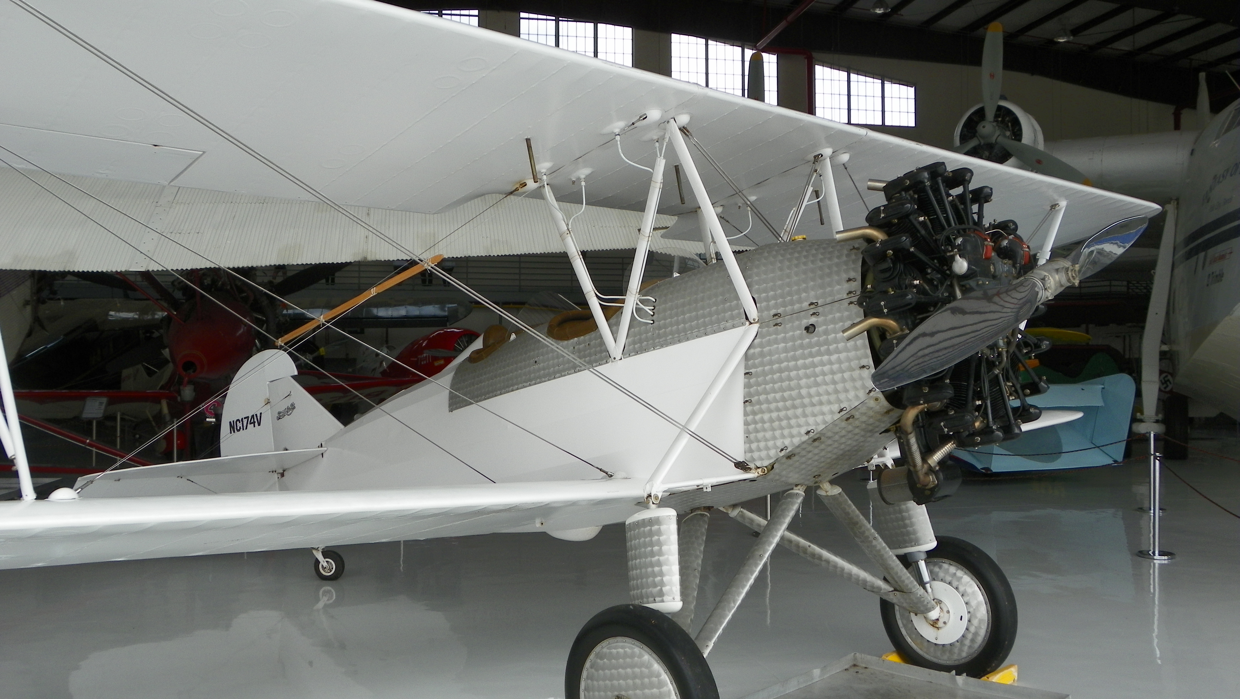 Travel Air 4000 at Fantasy of Flight in Polk City, FL.